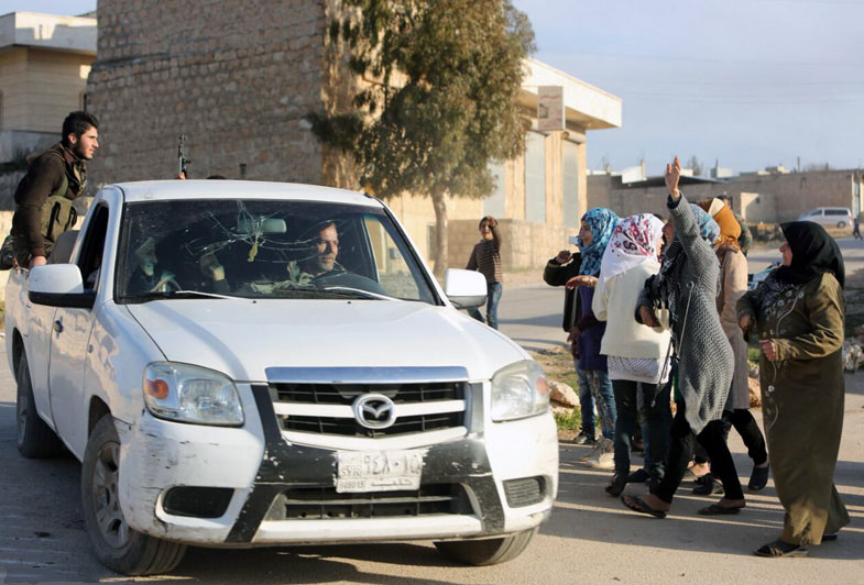 Syrian Army Breaks Several-Year-Long Siege of Nubl and Al-Zahra Towns